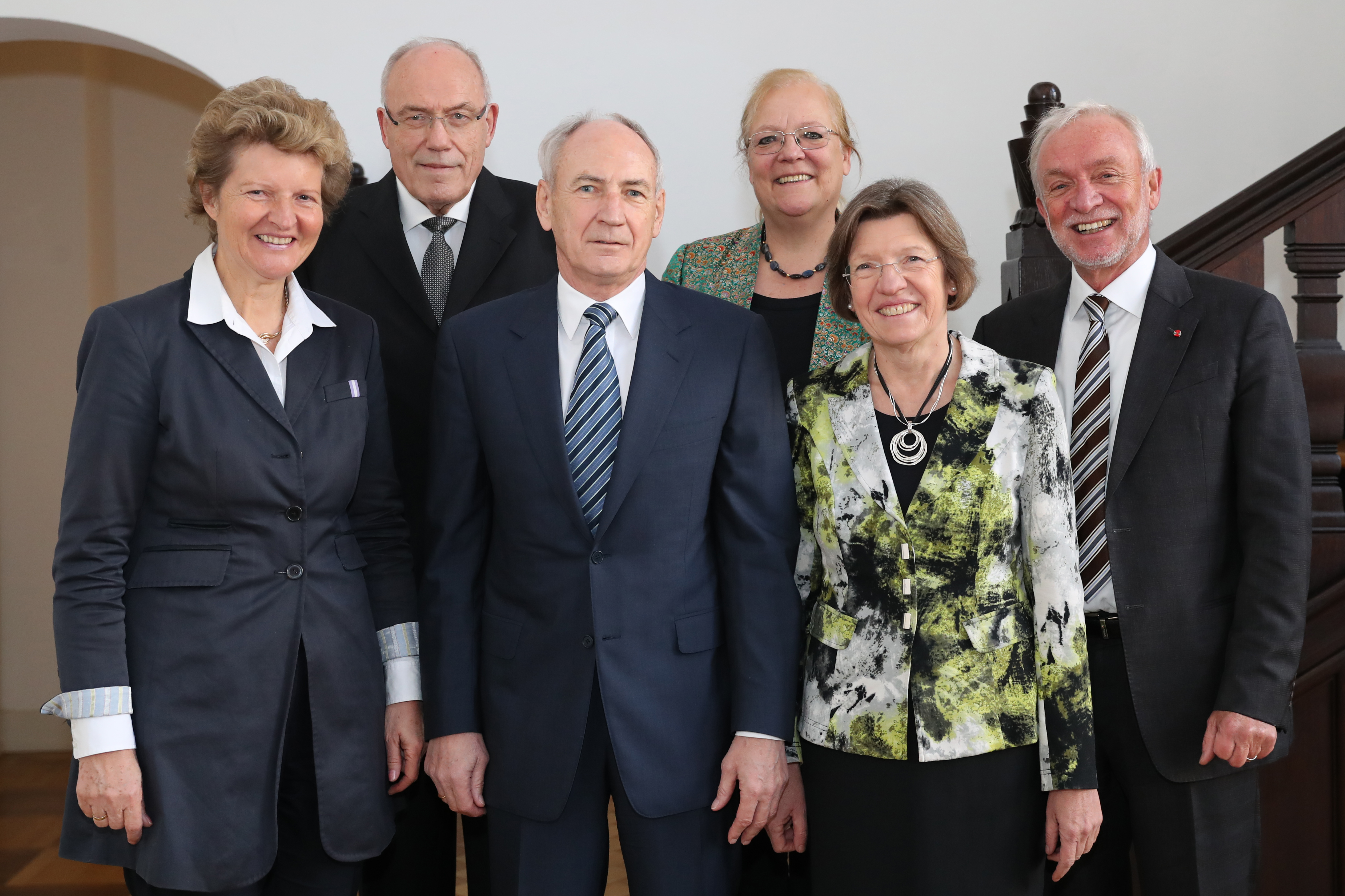 Members of the National Regulatory Control Council Baden-Wuerttemberg, Germany (left to right: Dr. Gisela Meister-Scheufelen, Dr. h. c. Rudolf Böhmler, Bernhard Bauer, Prof. Dr. Gisela Färber, Gerda Stuchlik und Claus Munkwitz)